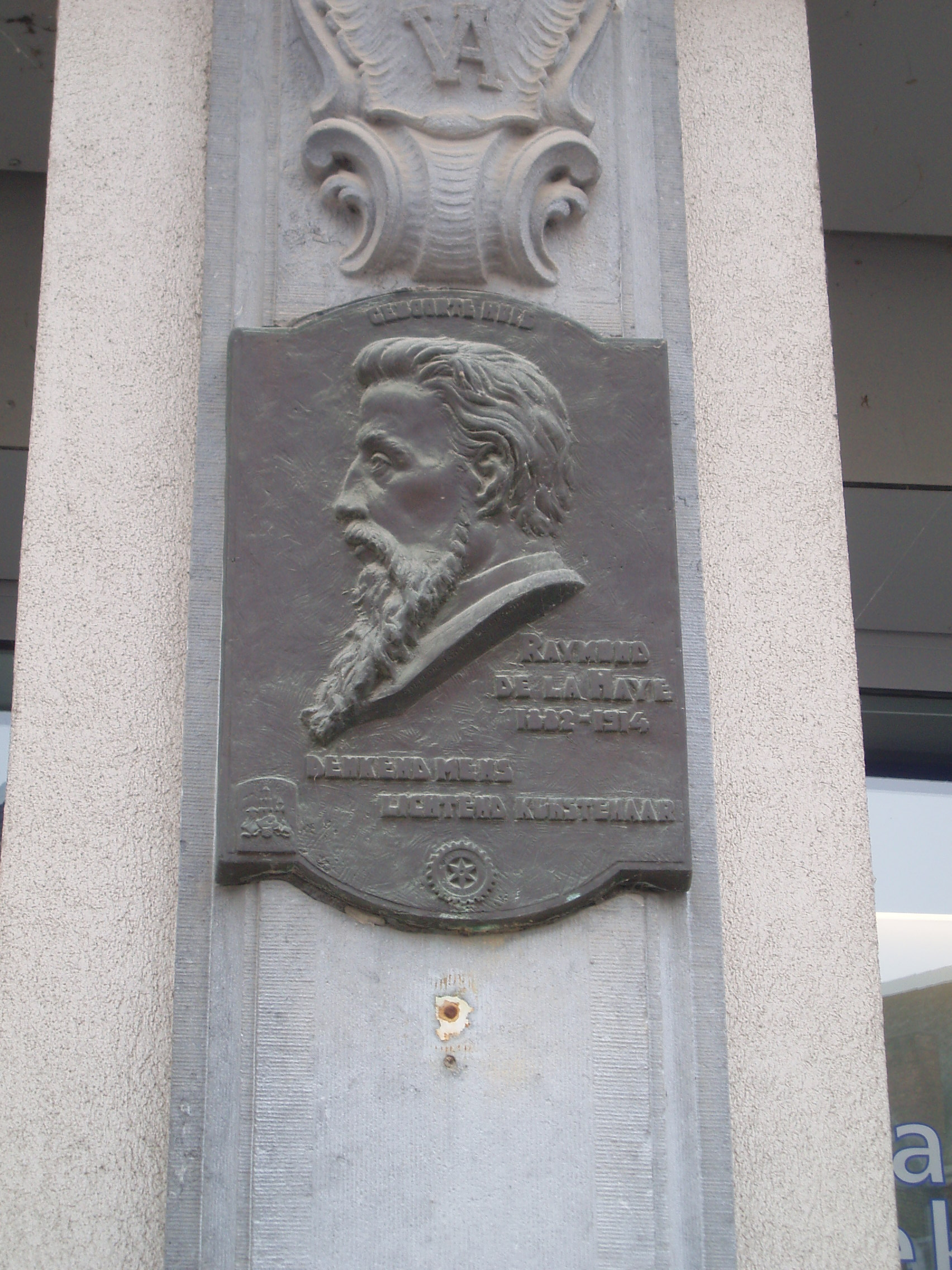 Raumond de la Haye memorial